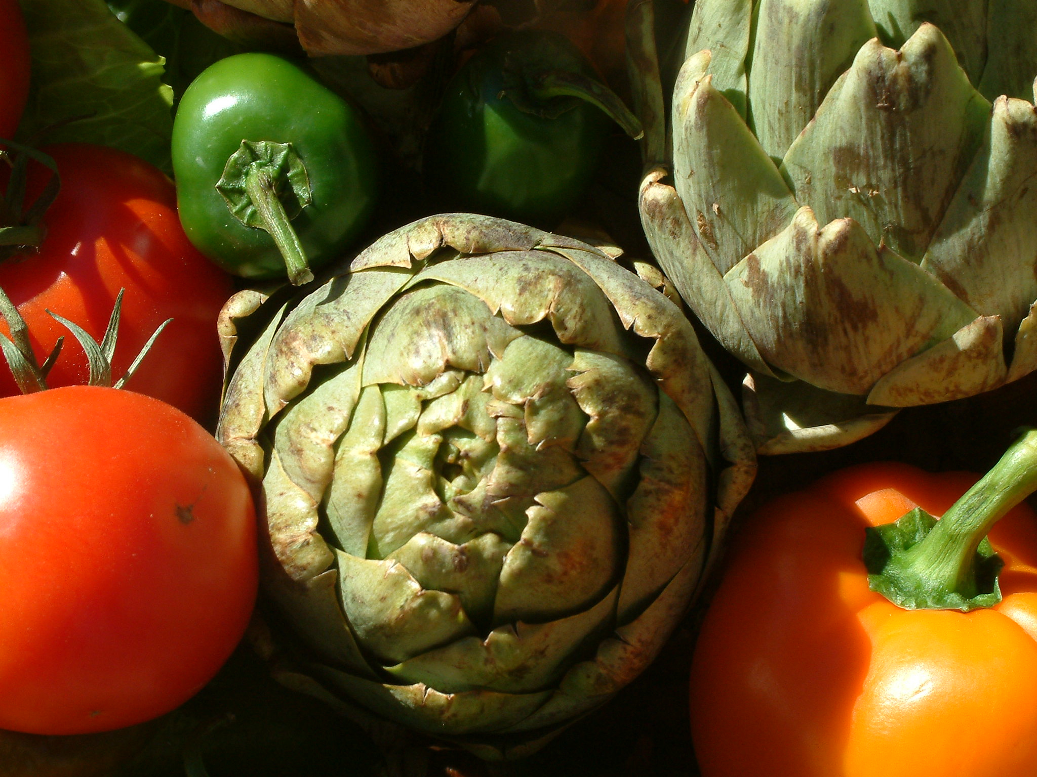 Artichoke, peppers